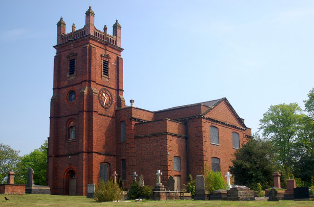 St Michael's parish church, Brierley Hill, West Midlands (formerly Staffordshire)